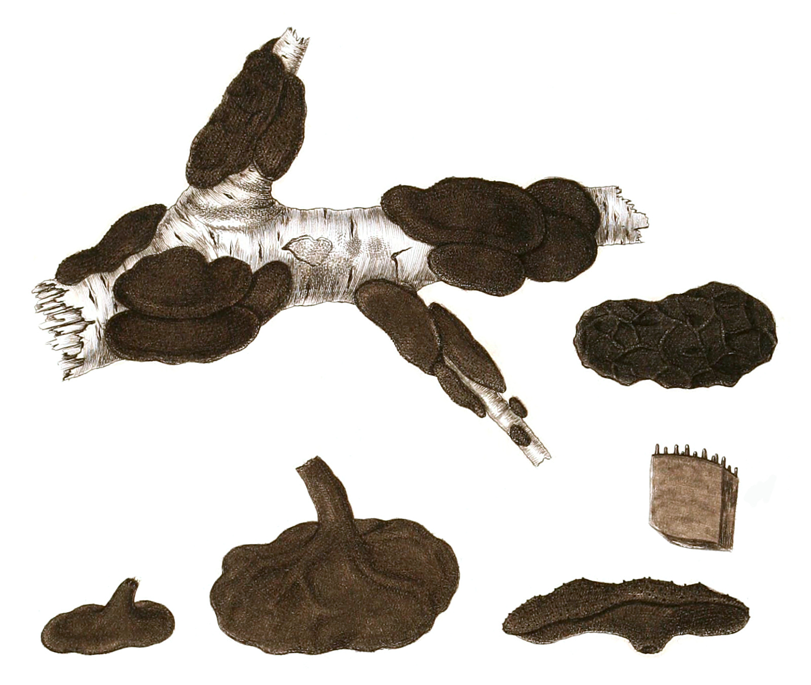 Plate from Herbier de la France IX